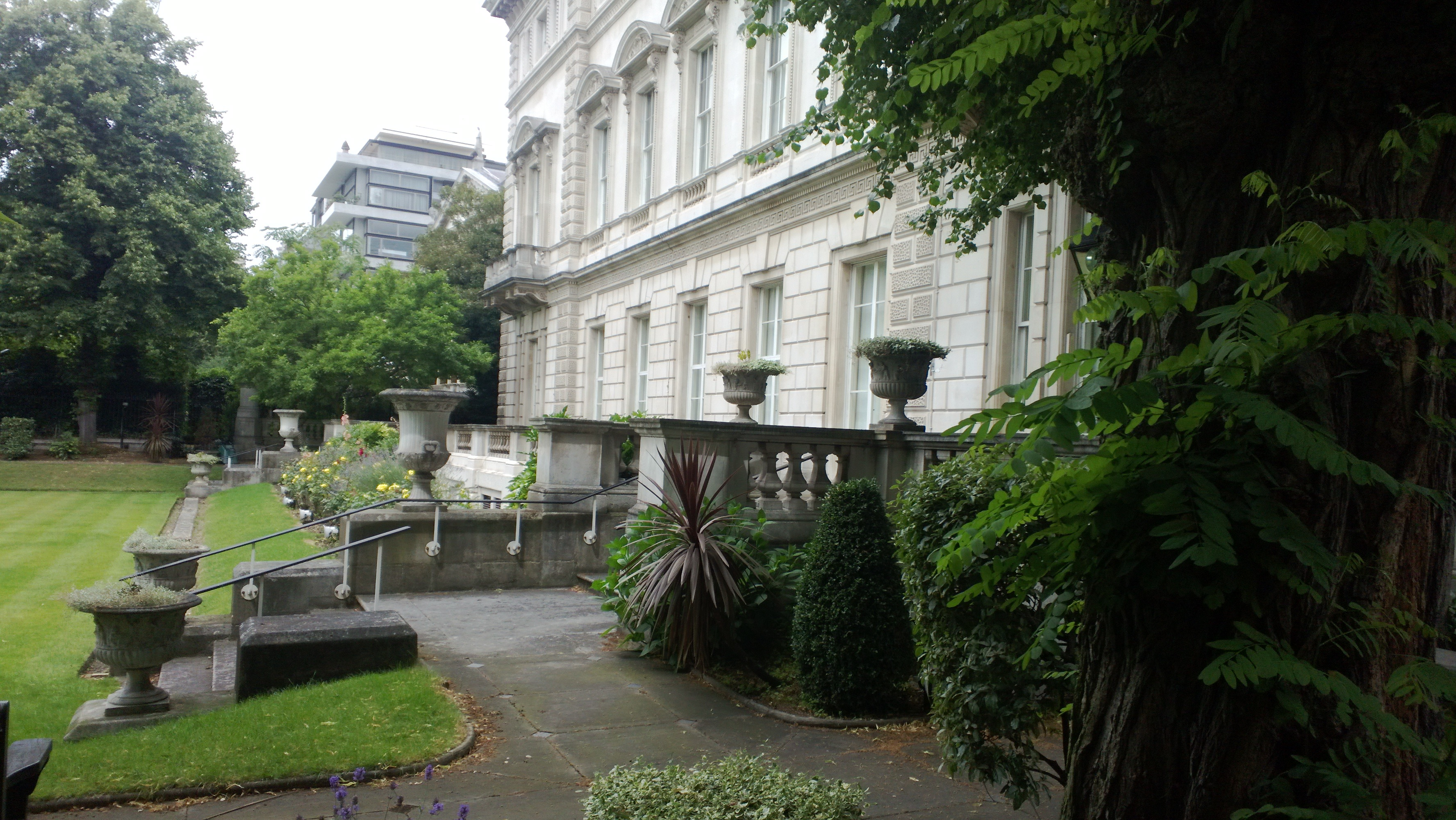 Terraced garden facing Green Park